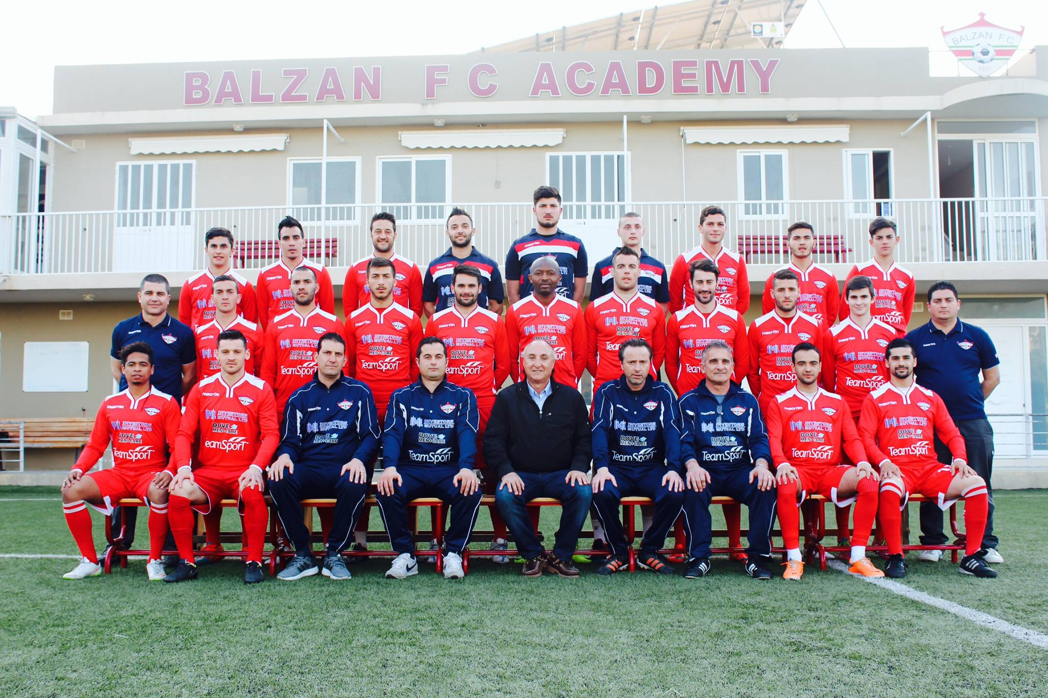 Balzan F.C. First Team